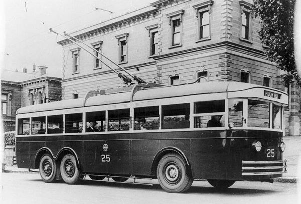 Side frontal view of the first Hobart trolleybus, No. 25.